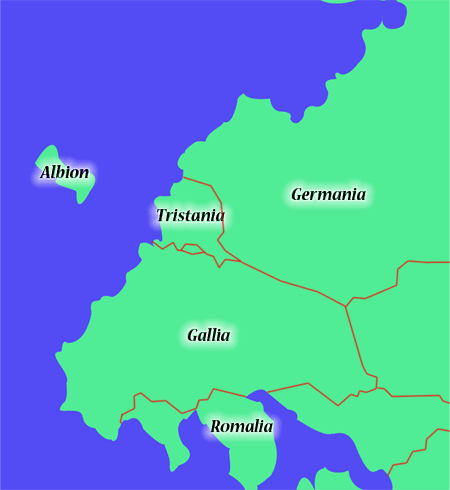 Map of the fictional continent of Halkeginia from Zero no Tsukaima.